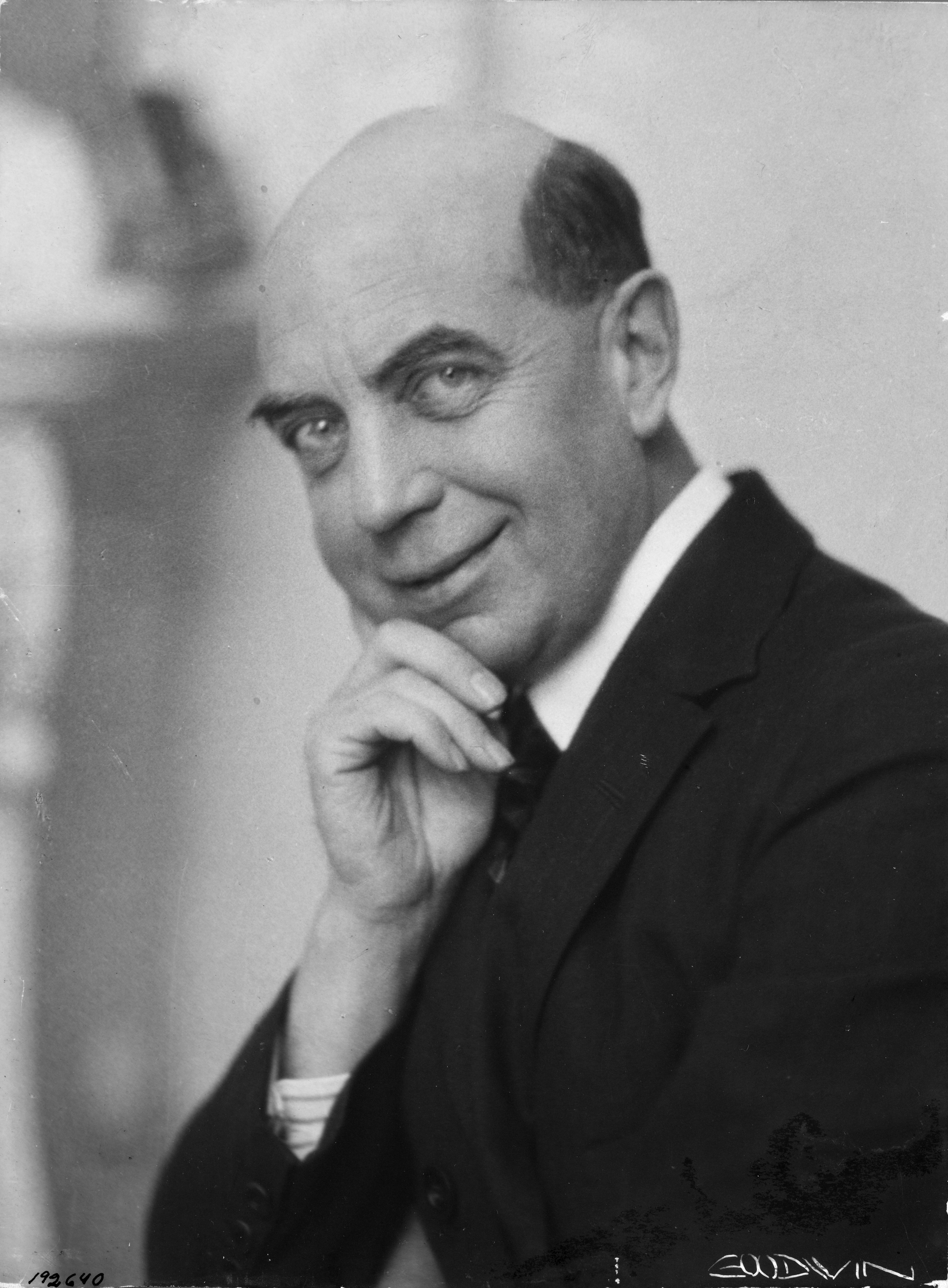 Photograph of the Finnish architect Gustaf Strangell (1878–1937).